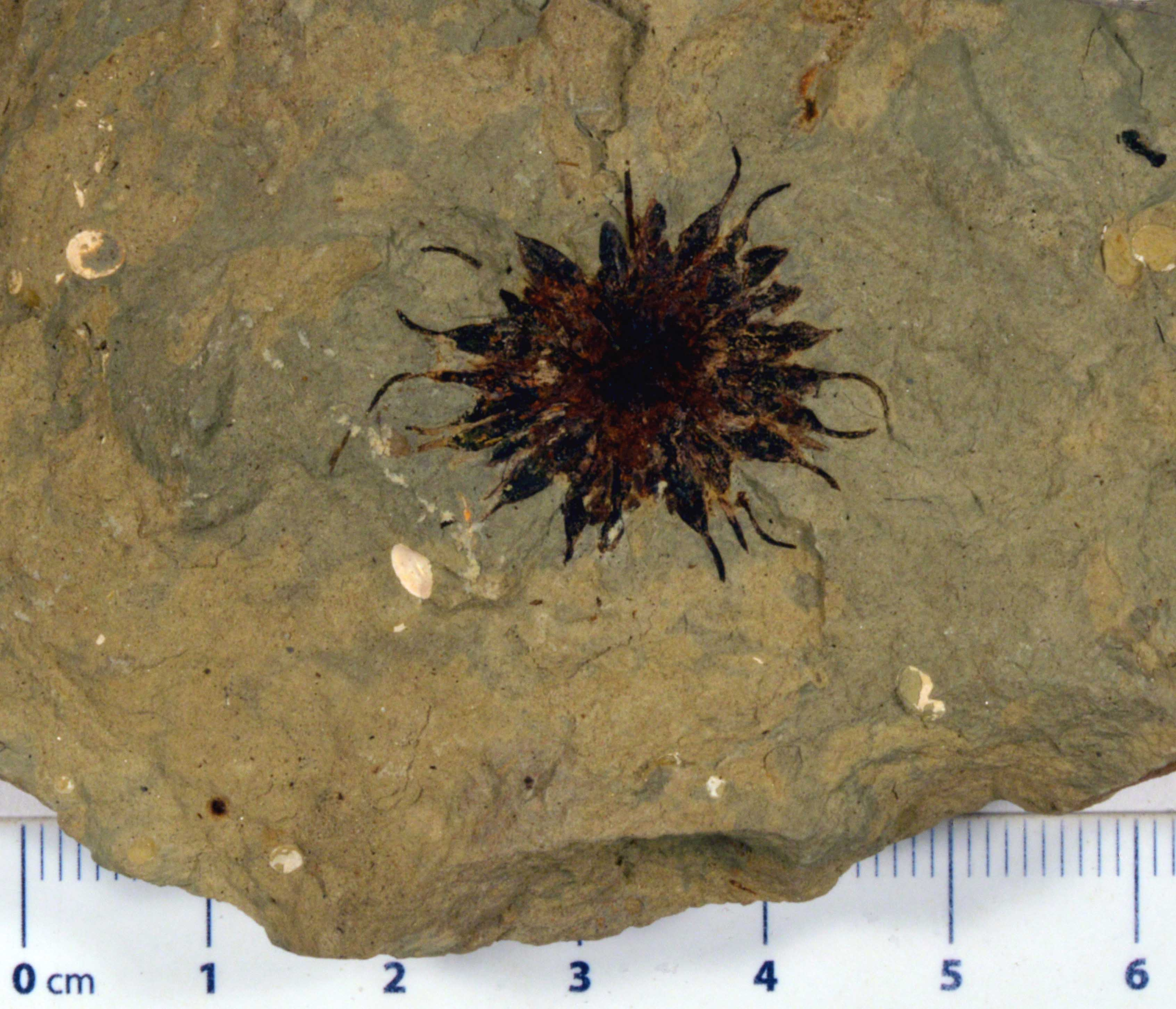 Fossil Platanus fruit from the Paleocene Paskapoo Formation near Red Deer, Alberta, Canada.